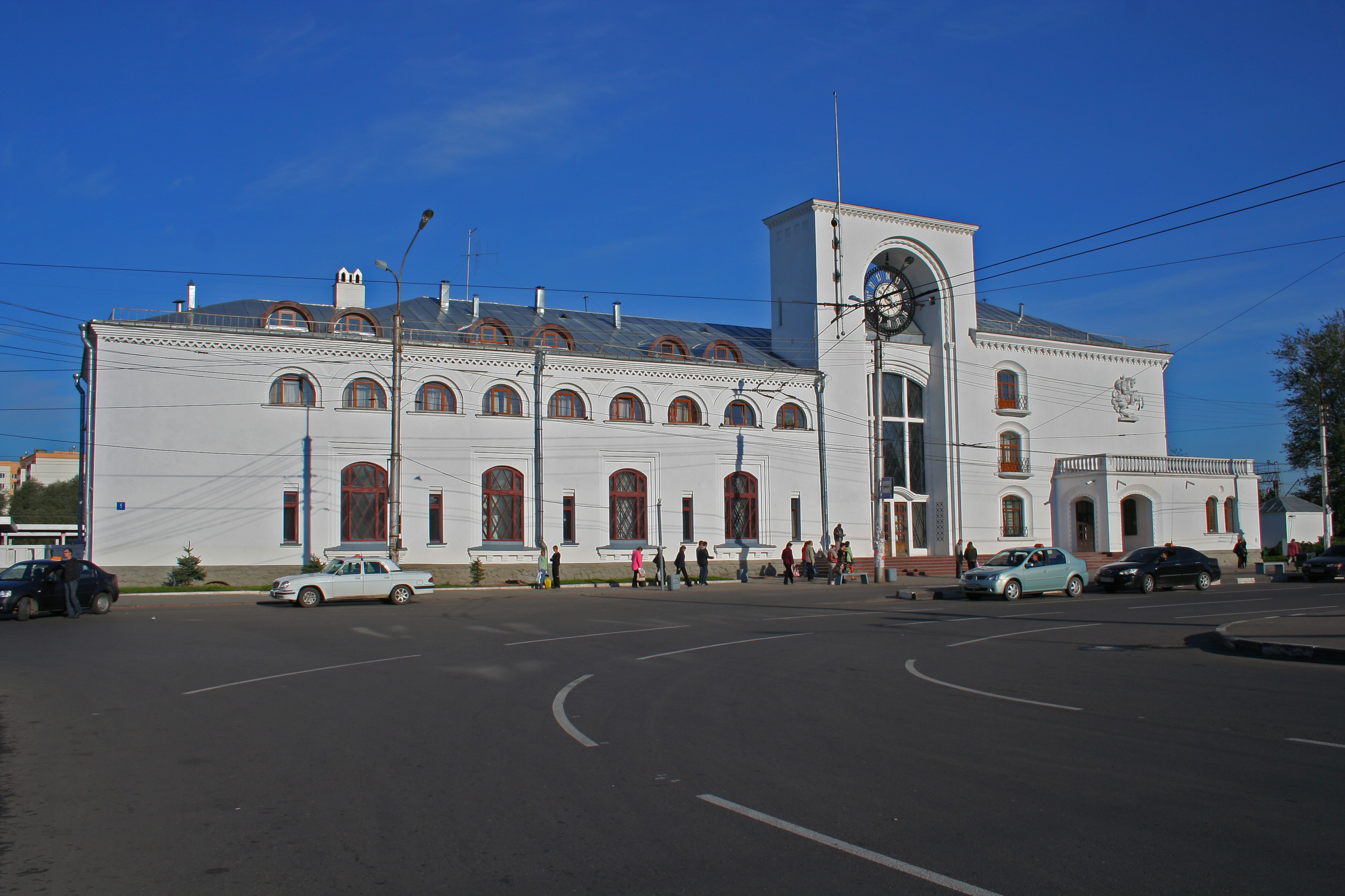 Views of Velikiy Novgorod. The building of the main train station.